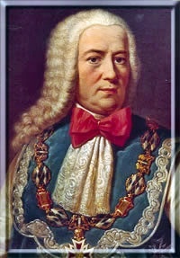 Hieronymus von Spreti (1695-1772) bayerischer Graf und kaiserlicher Feldmarschall-Leutnant